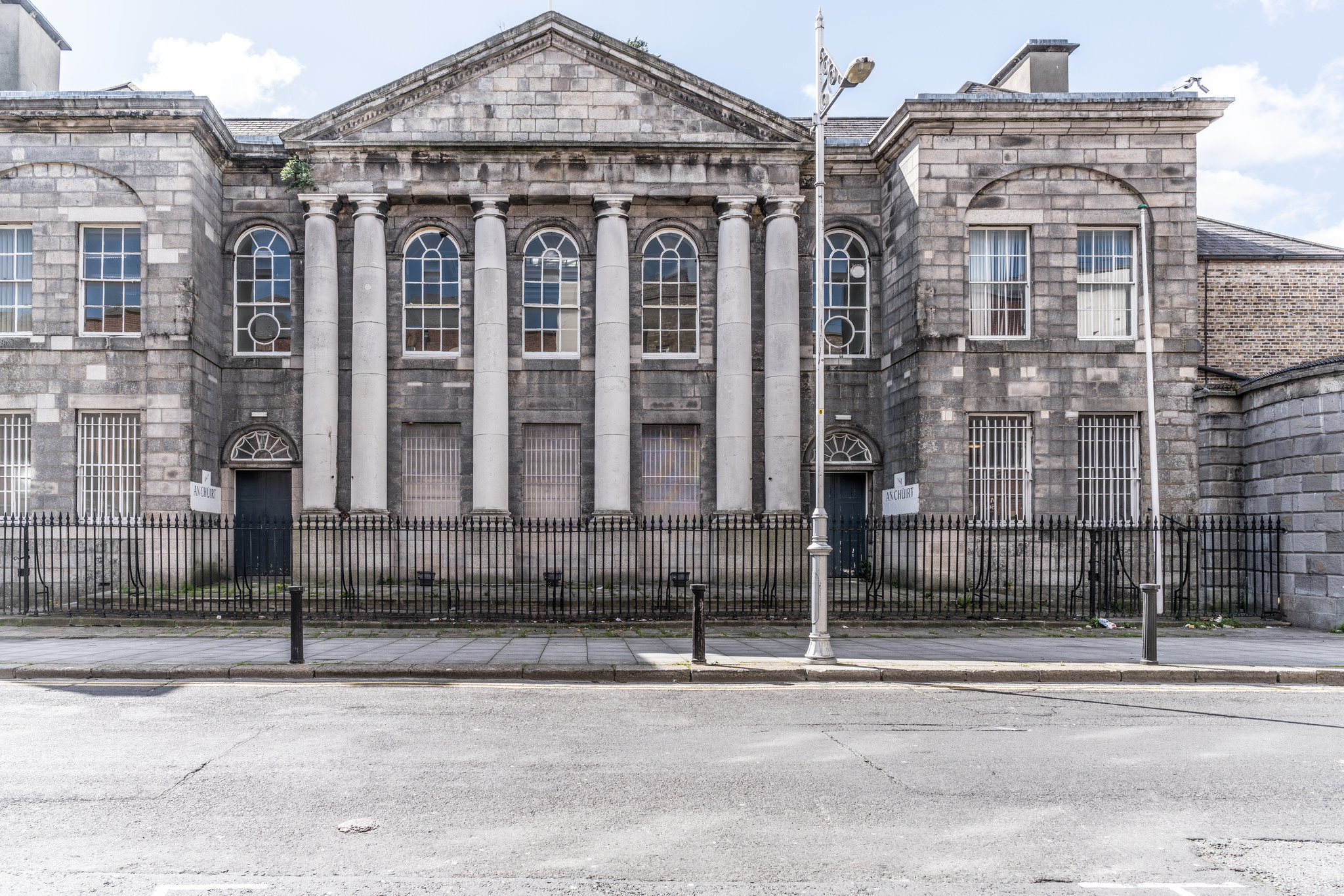 GREEN STREET COURT HOUSE - HISTORIC BUILDING